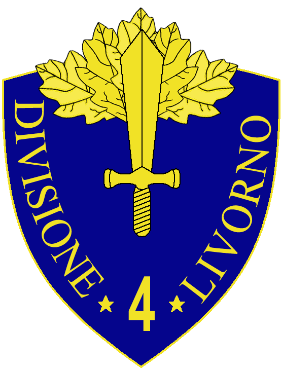 4a Divisione Fanteria Livorno insignia, Regio Esercito, Italy, WWII